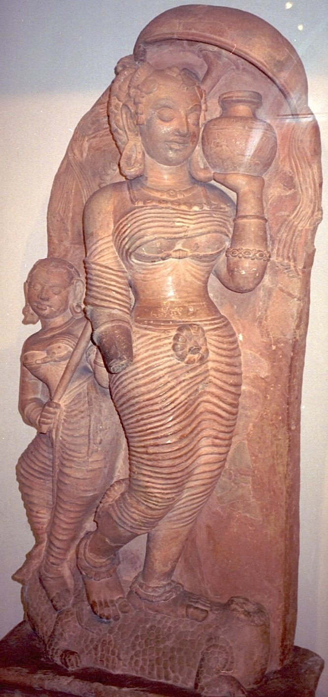 ~ GANGA DEVI ~ Gupta Dyn. terracotta, Ahichchhatra, UP now in Nat'l Museum, New Delhi